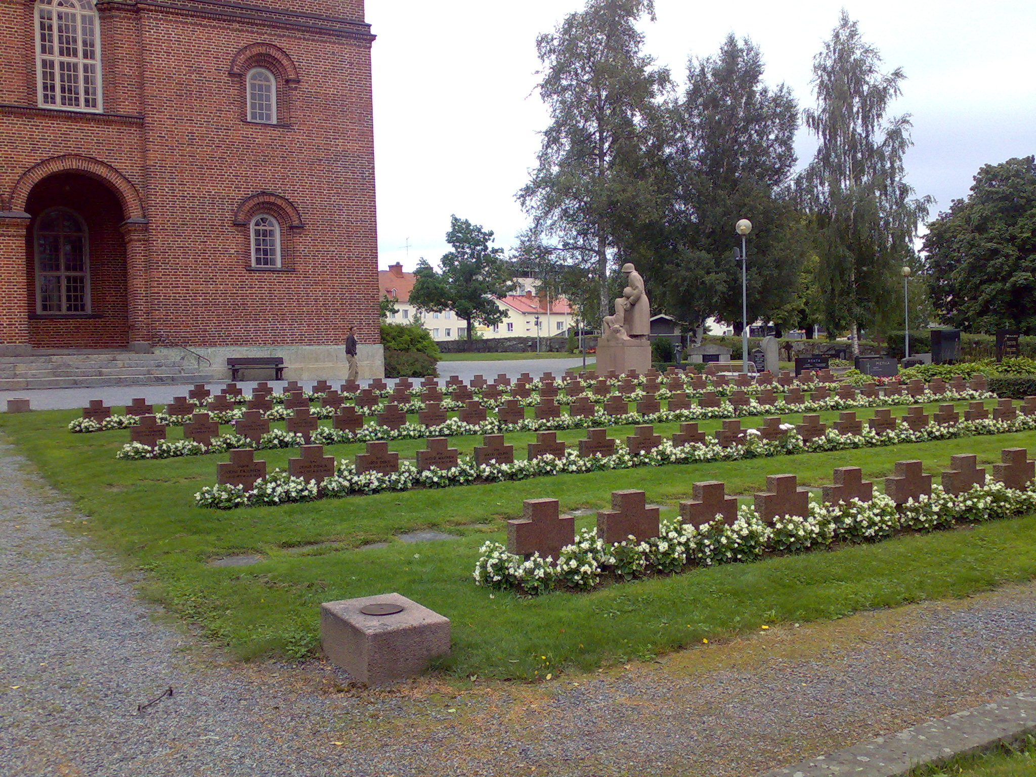 Military cemetary at Church in Sastamala, Finland